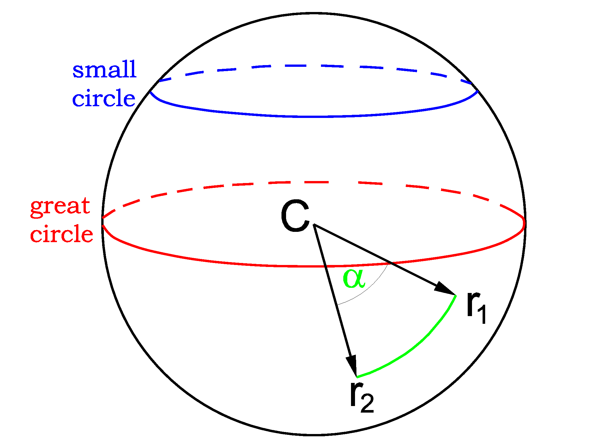 Great and small circle on a surface